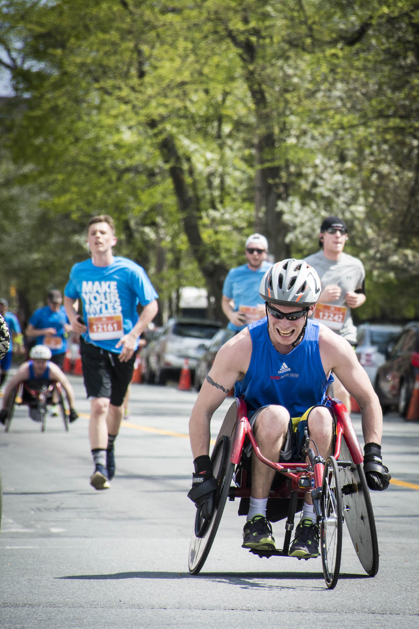 500px provided description: Halifax Blue Nose Marathon 2016, 5km and wheelchair Events. [#race ,#wheelchair ,#Halifax ,#Blue Nose Marathon ,#wheelchair races]